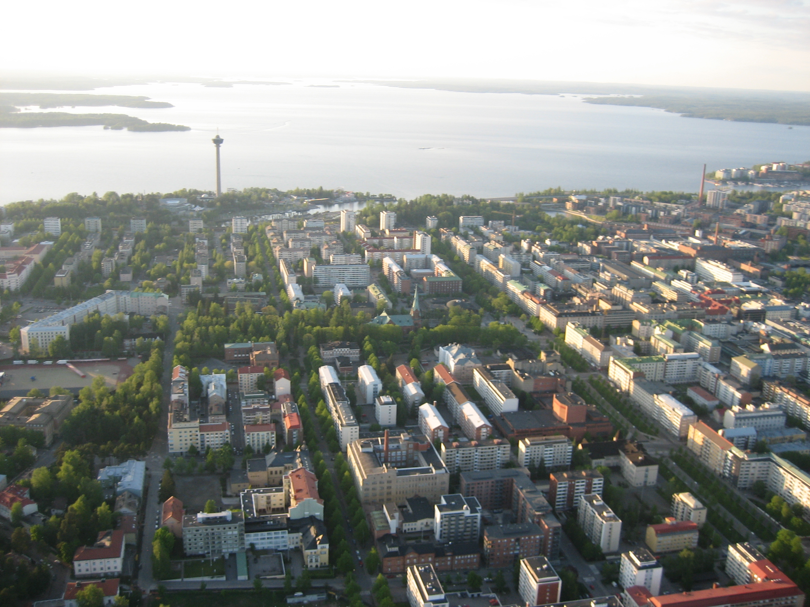 This picture is taken from a hot air balloon. The camera faces to north/north-east.